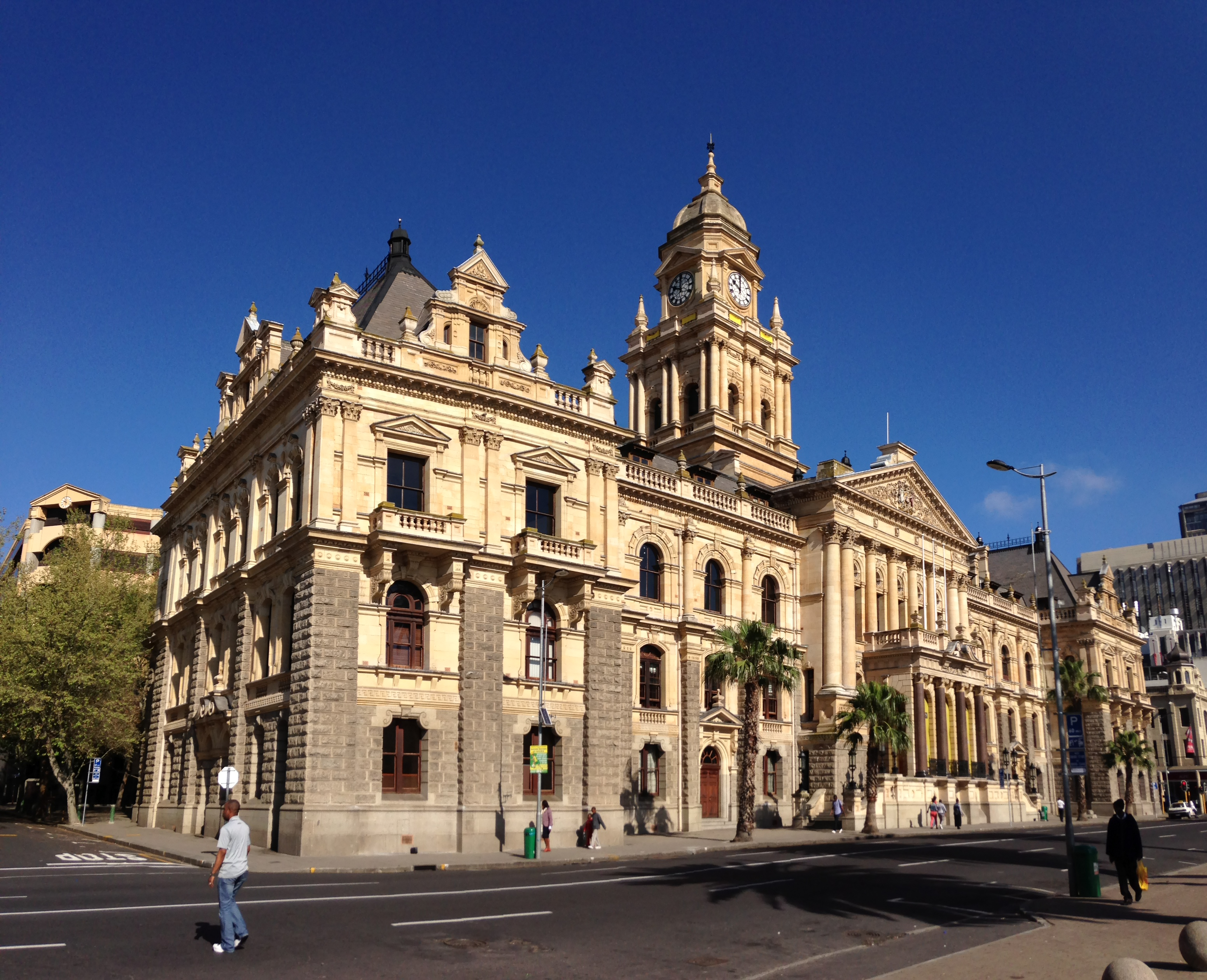 Cape Town City Hall in September 2014. This media shows a South African Protected Site with SAHRA file reference 9/2/018/0115 .